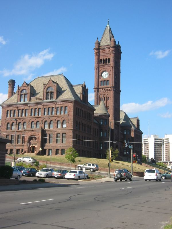 Duluth Central High School, Duluth, Minnesota